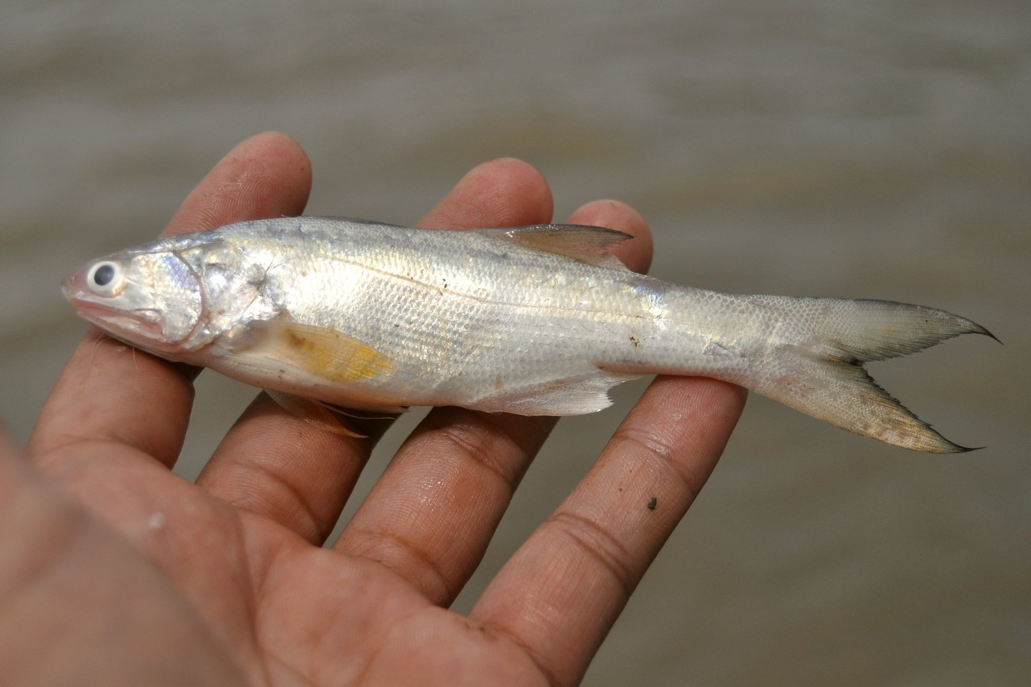 Fourfinger threadfin (Eleutheronema tetradactylum), juvenile. From Banyuasin river, South Sumatra, Indonesia.